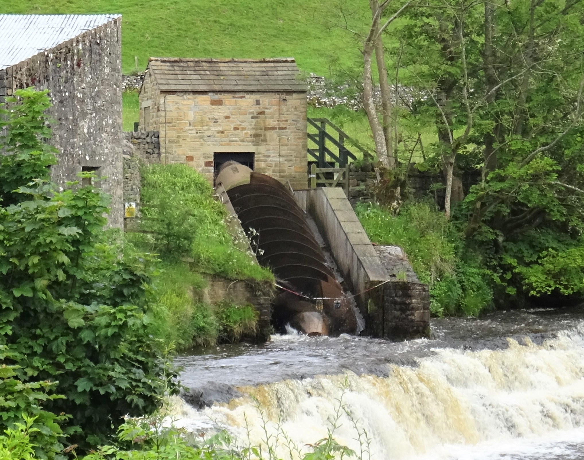 A Hydroelectric scheme using an archimedes screw with turbine house above, River Bain, Bainbridge, North Yorkshire, England.